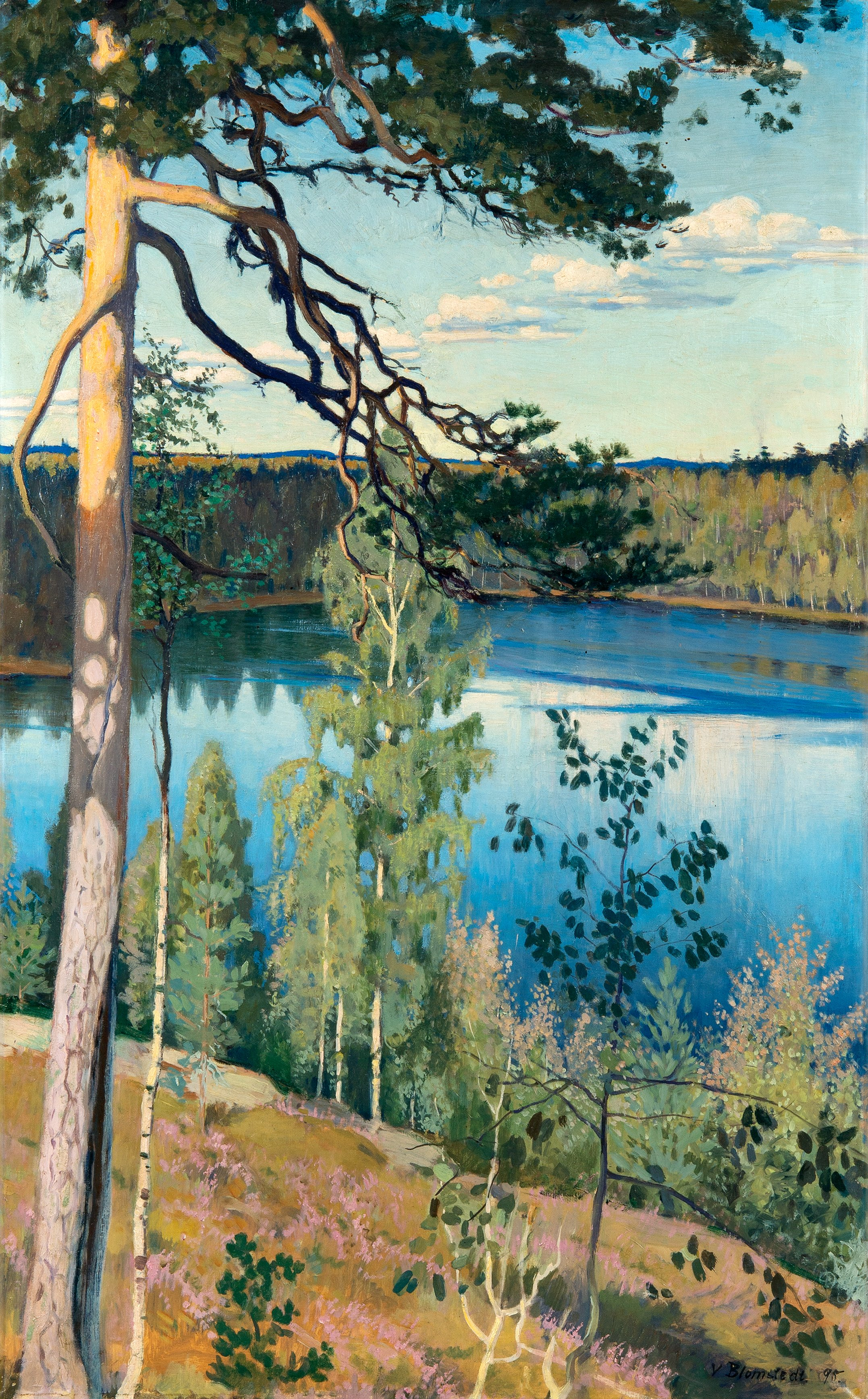 Väinö Blomstedt 1895. Oil on canvas 103x64 cm.